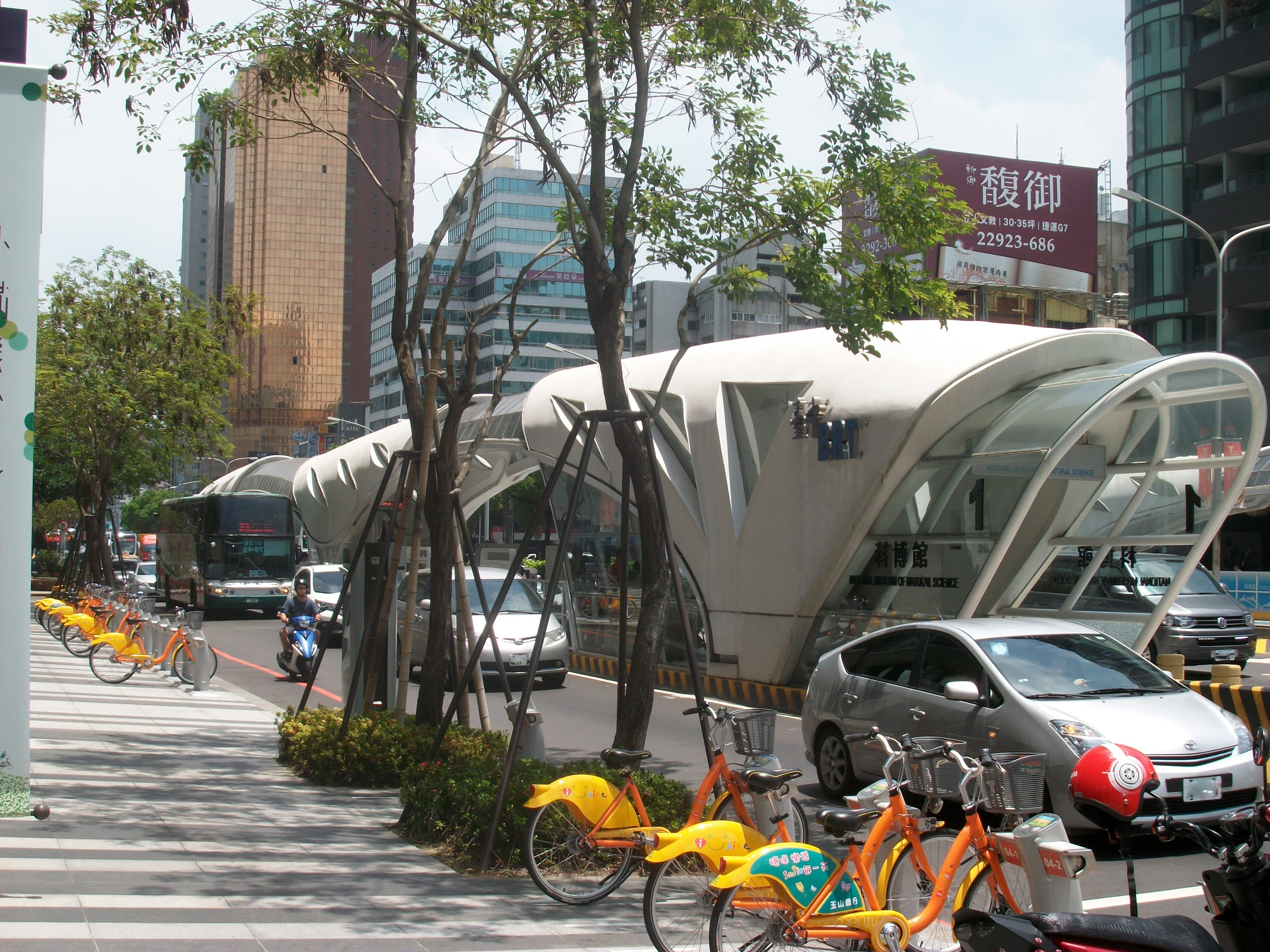 Taichung BRT Blue Line National Museum of Natural Science Station